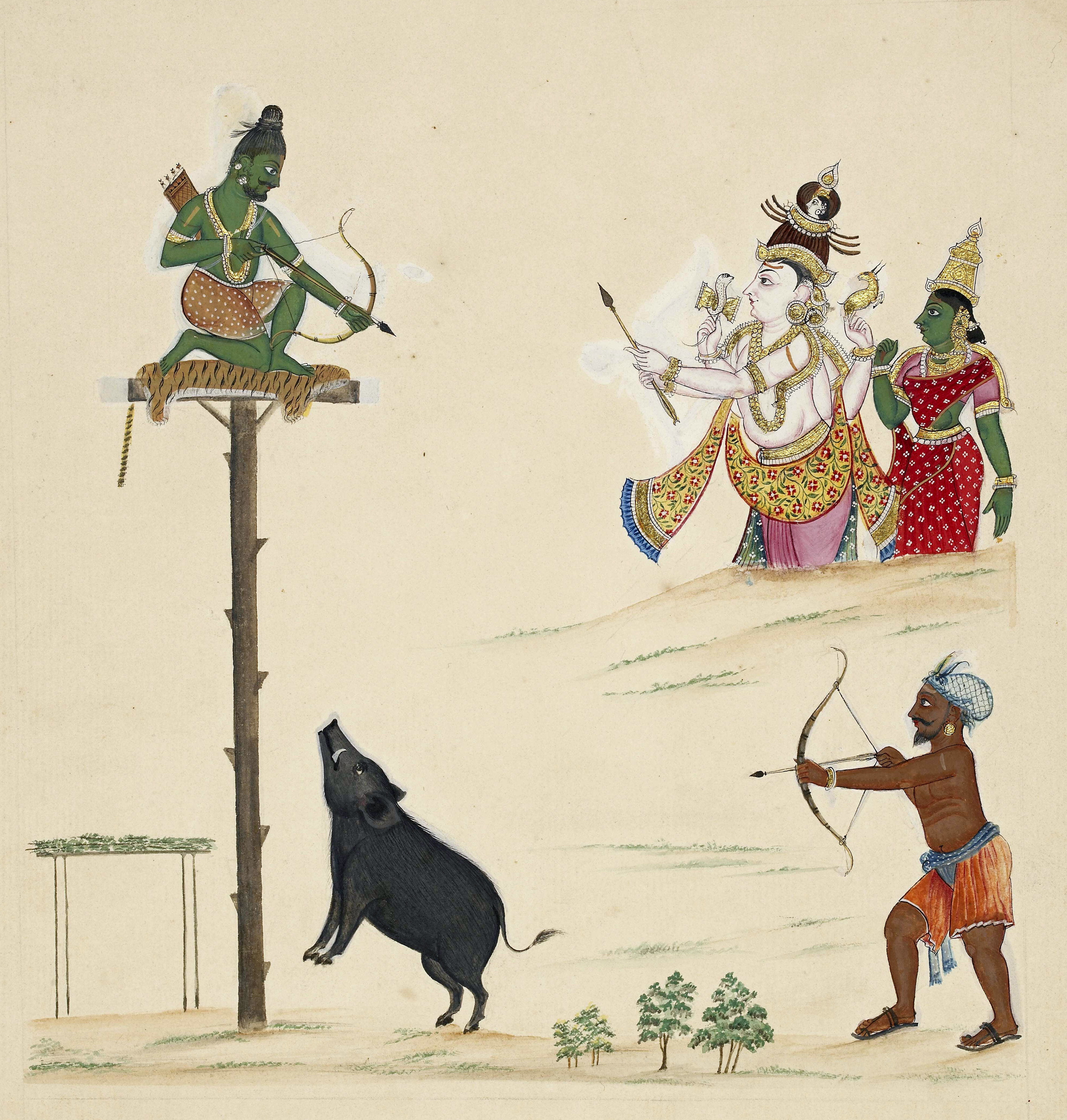 Part of a portfolio of sixty-three paintings of deities and daily life. Arjuna, perched on a high platform, aims his arrow at a large boar which rushes towards him. The green-complexioned hero, with his matted hair tied in a topknot and dressed in a deer skin, kneels on a tiger skin. A quiver hangs from his right shoulder and his stance expresses his concentration on aiming at the animal. Behind the platform on which Arjuna kneels is another platform, smaller and covered with fronds. Some diminutive trees in the foreground, among which the dark-complexioned Kirata (a form of Śiva ) appears, suggest the forest. Kirata wears headgear adorned with feathers. He wears sandals and a loose lower garment tied at the waist by a sash. He aims at the boar from behind. To the right of the page, in the background, Śiva emerges from the earth, followed by the green-complexioned Parvati. Śiva carries in his upper right and left hands the damaru (hour glass shaped drum) and the mriga (gazelle). In his lower hands he carries the magical pashupata astra, the weapon which will enable Arjuna to defeat the Kauravas